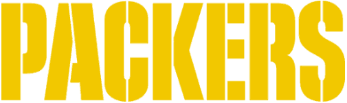 Green Bay Packers yellow wordmark used since 1959.